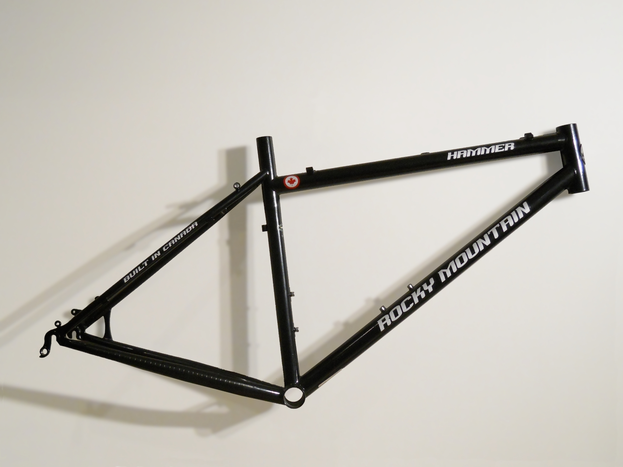 An image of a Rocky Mountain Hammer hardtail mountain bike. Approximate year of production 2005, made of steel, for 26" wheels, disk brakes (only), a conventional English threaded bottom bracket, and a straight 1 1/8 steer tube.